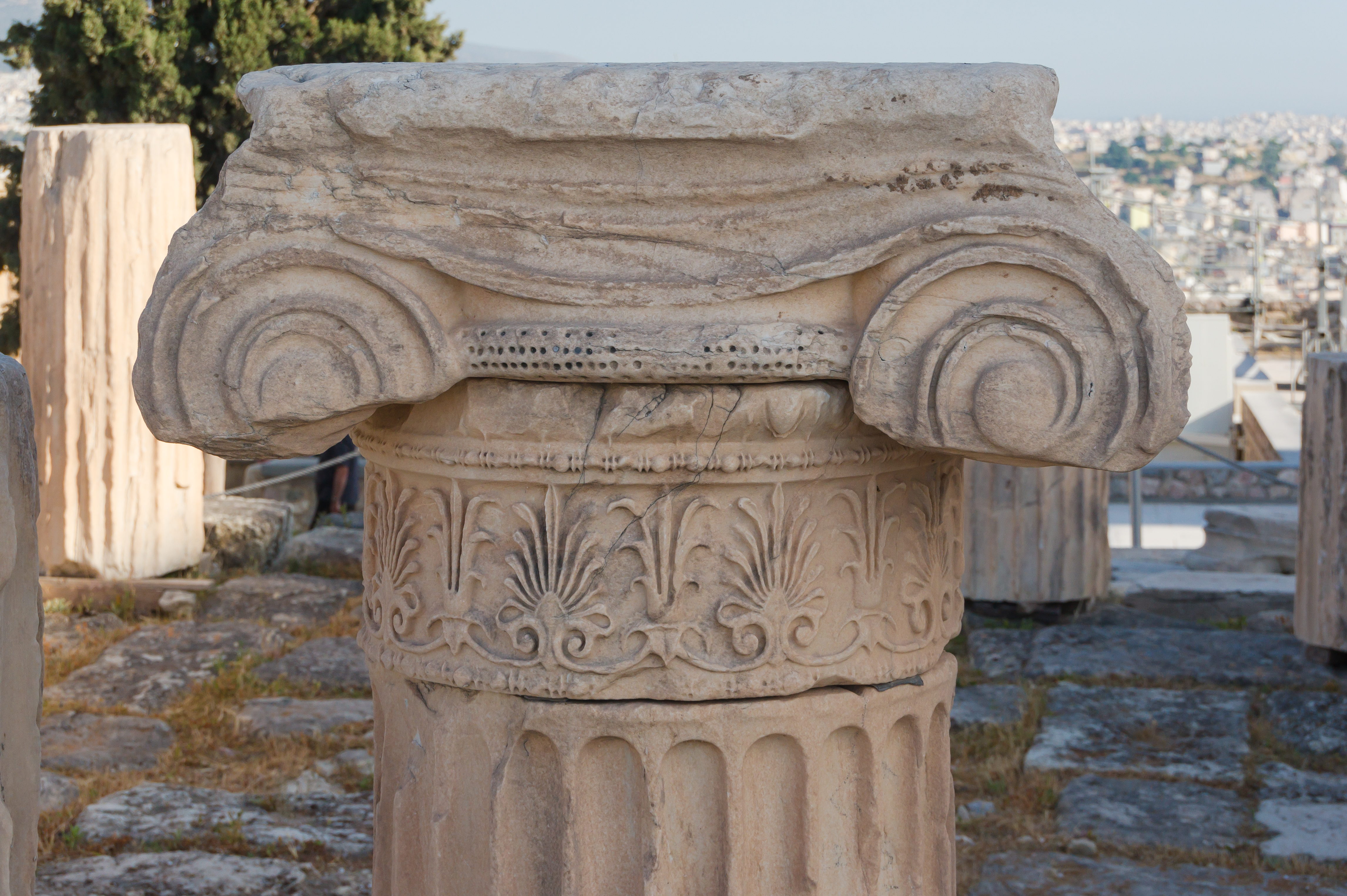 Close-up of a ionic capital to be restored, Acropolis, Athens, Greece.